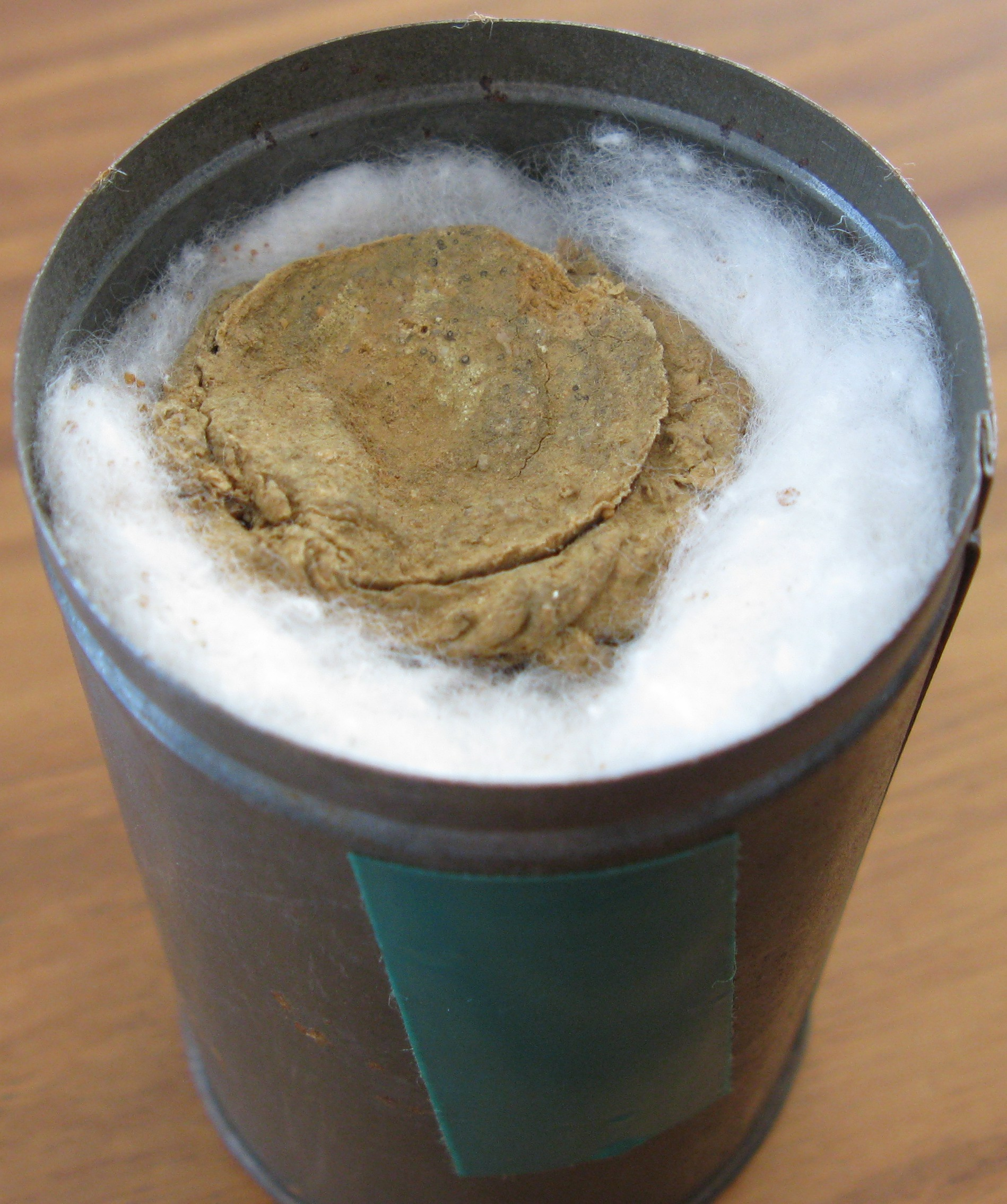 Ctenizidae, probable genus: Stasimopus. Cork-lid Trapdoor spider burrow, saved intact in baking powder tin ca late 19th century.